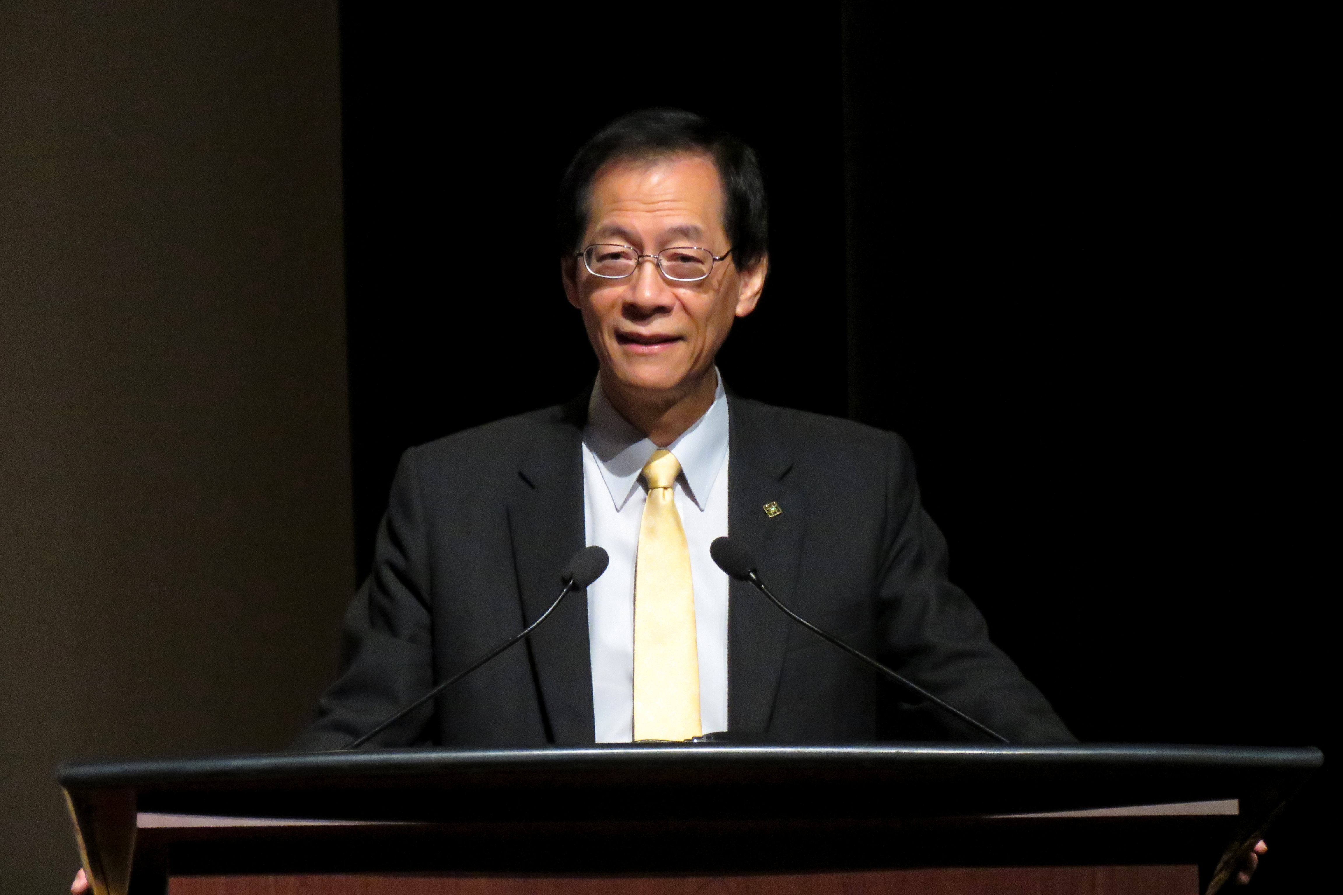 "Meet the President" - first "treat" for newcomers if registered.